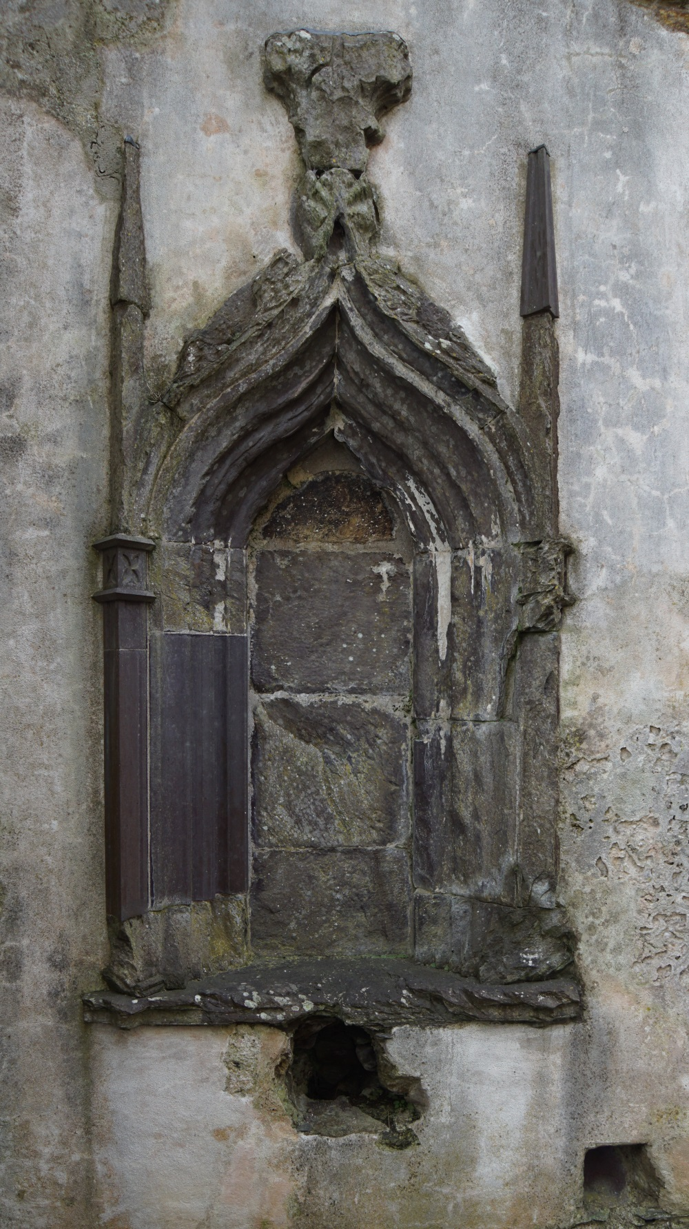 St. Davids Bishop's Palace, St. Davids, Wales, United Kingdom. Piscina in Great Chapel.